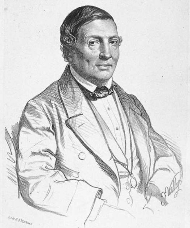 Depicted person: Manuel Codorniu